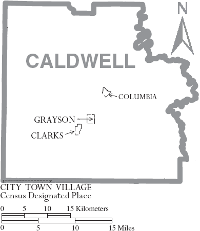 Map of Caldwell Parish, Louisiana, United States with municipal boundaries